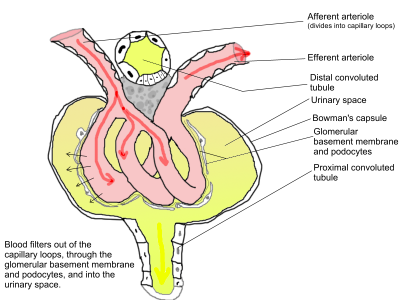 Drawing of glomerular physiology. Created by Tieum; original version located at File:PhysiologieGlomérulaire.png. Only change made in this version is to translate the text from French to English.